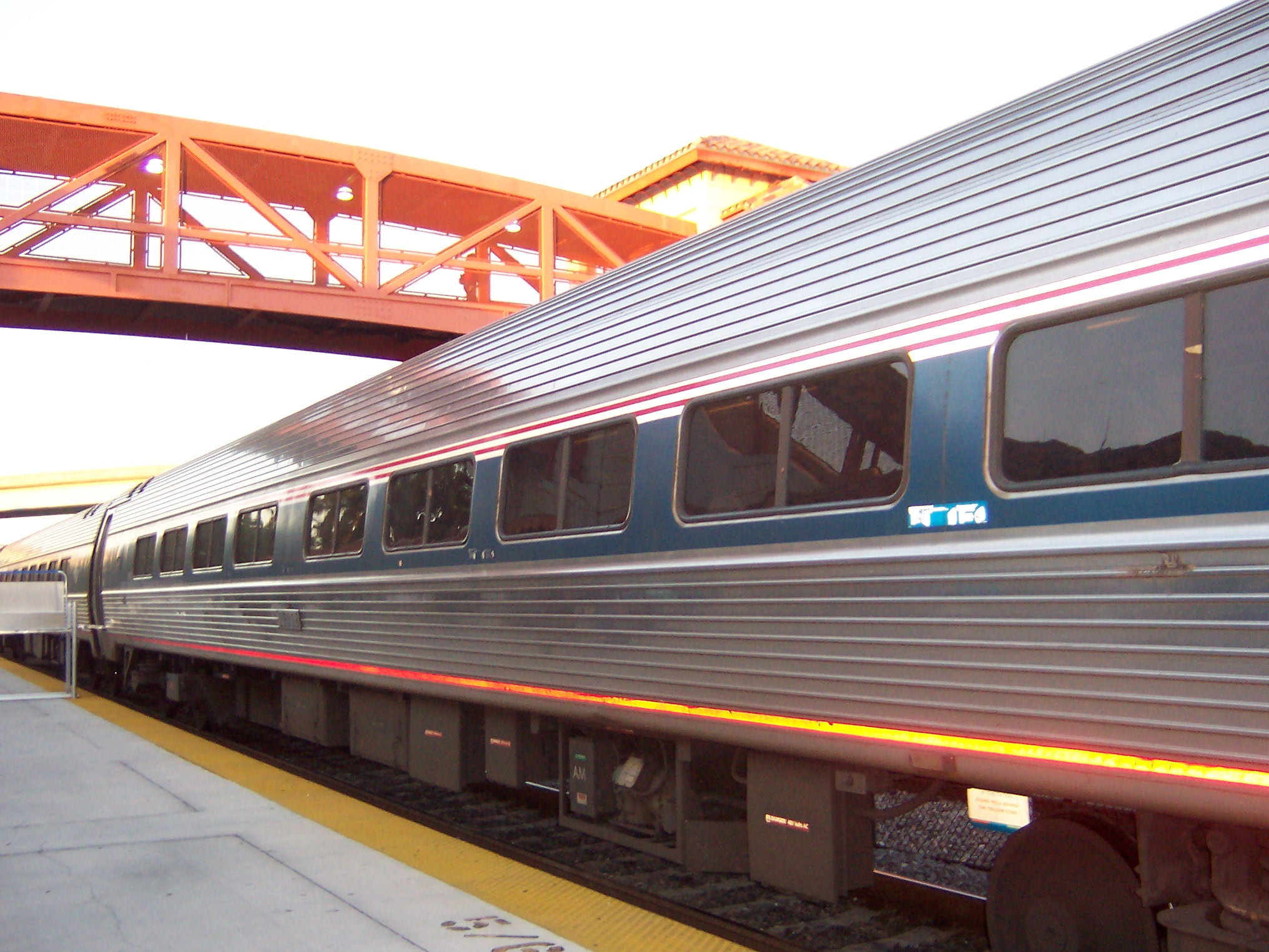 The Silver Star in Fort Lauderdale